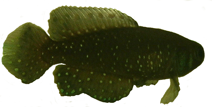 Killi fish (Cynolebias sp.) in an aquarium, background has been erased